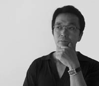 portrait of ?